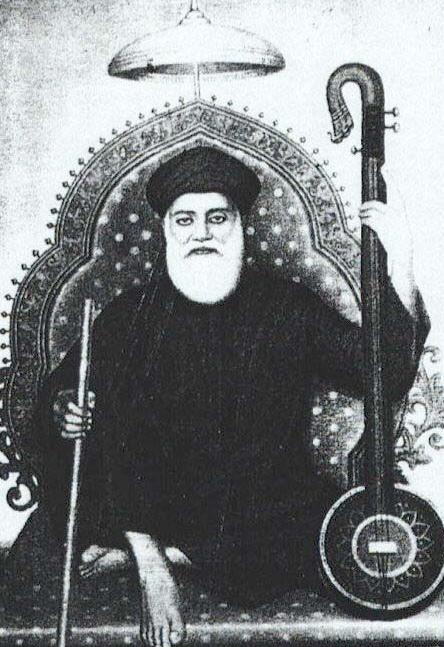 Hazrat Sachal Sarmast